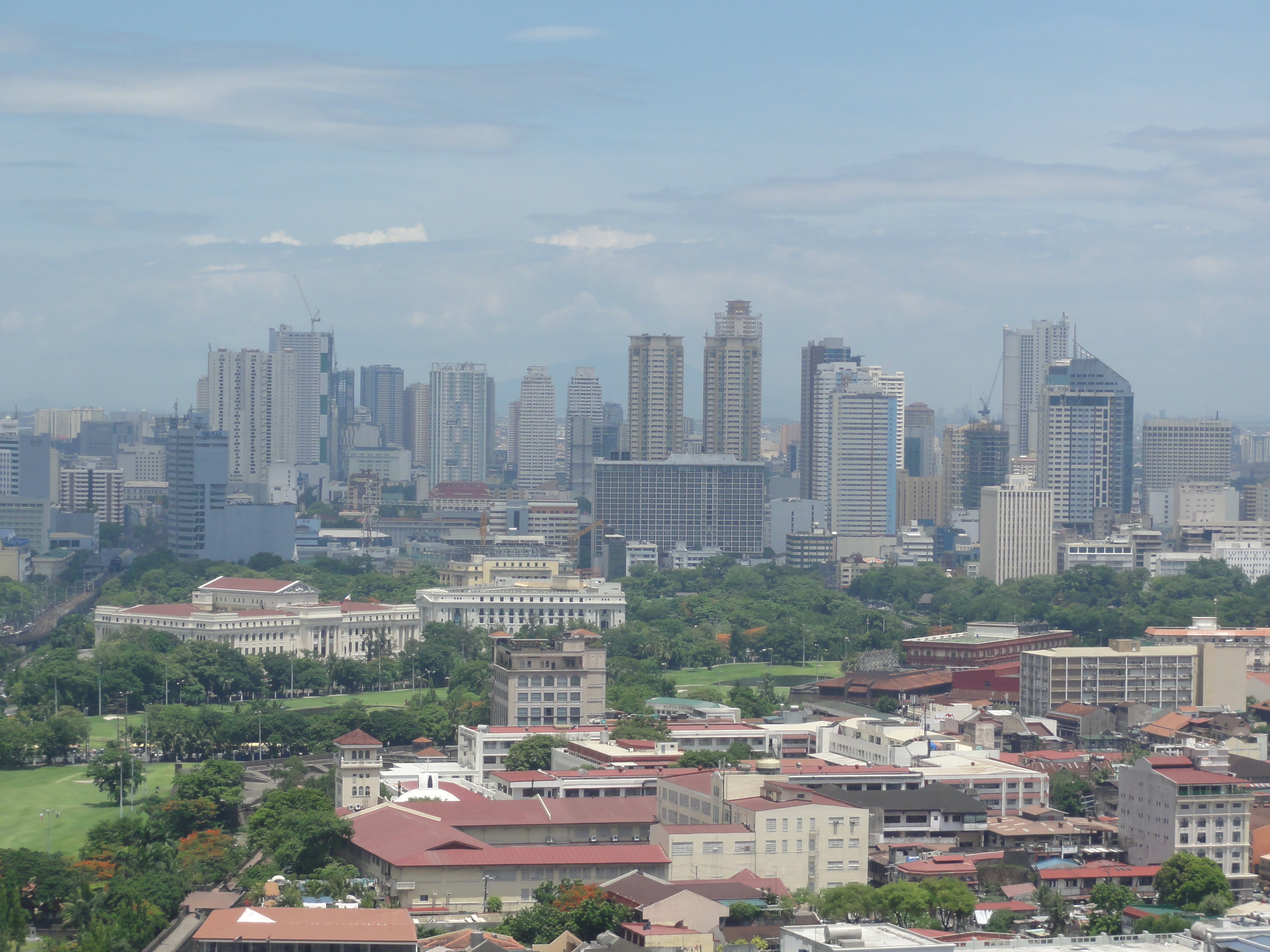 Ermita-Malate skyline in Manila as of June 2015. Shot from the 31st floor of World Trade Exchange Tower in Binondo, Manila.